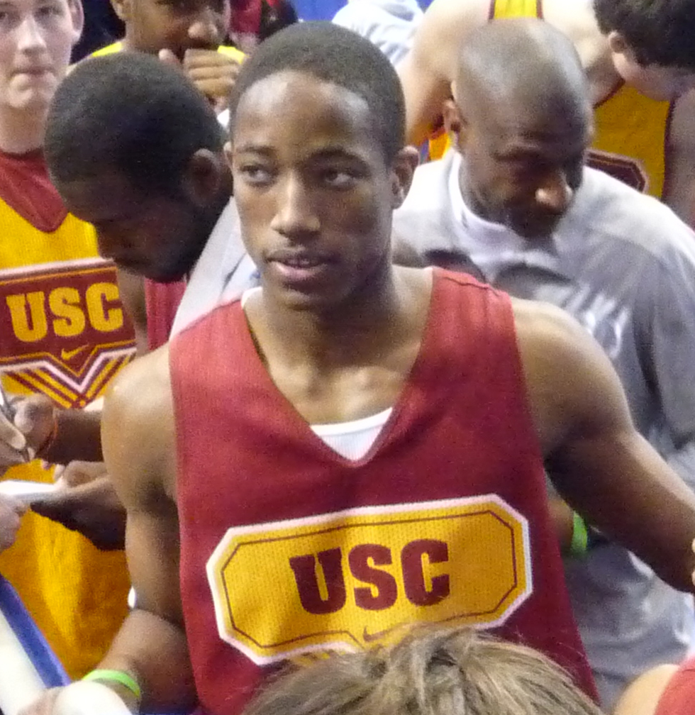 USC Trojans basketball player DeMar DeRozan leaves the court after a practice before the 2009 NCAA Tournament at the Metrodome in Minneapolis, Minnesota.